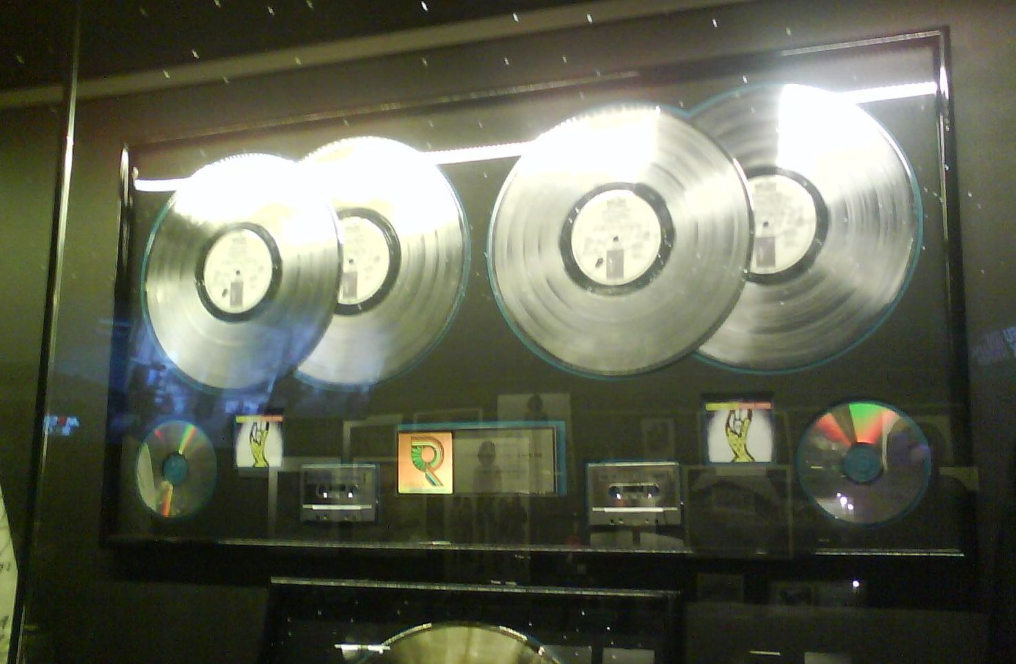 Multiple platinum award for Voodoo Lounge, the Rolling Stones' 1994 Gramy-winning studio album. Photographed at the Museo del Rock in Madrid. The museum houses a collection of records, objects, memorabilia and archive material amassed over a 40 years by the Catalan journalist Jordi Tardà